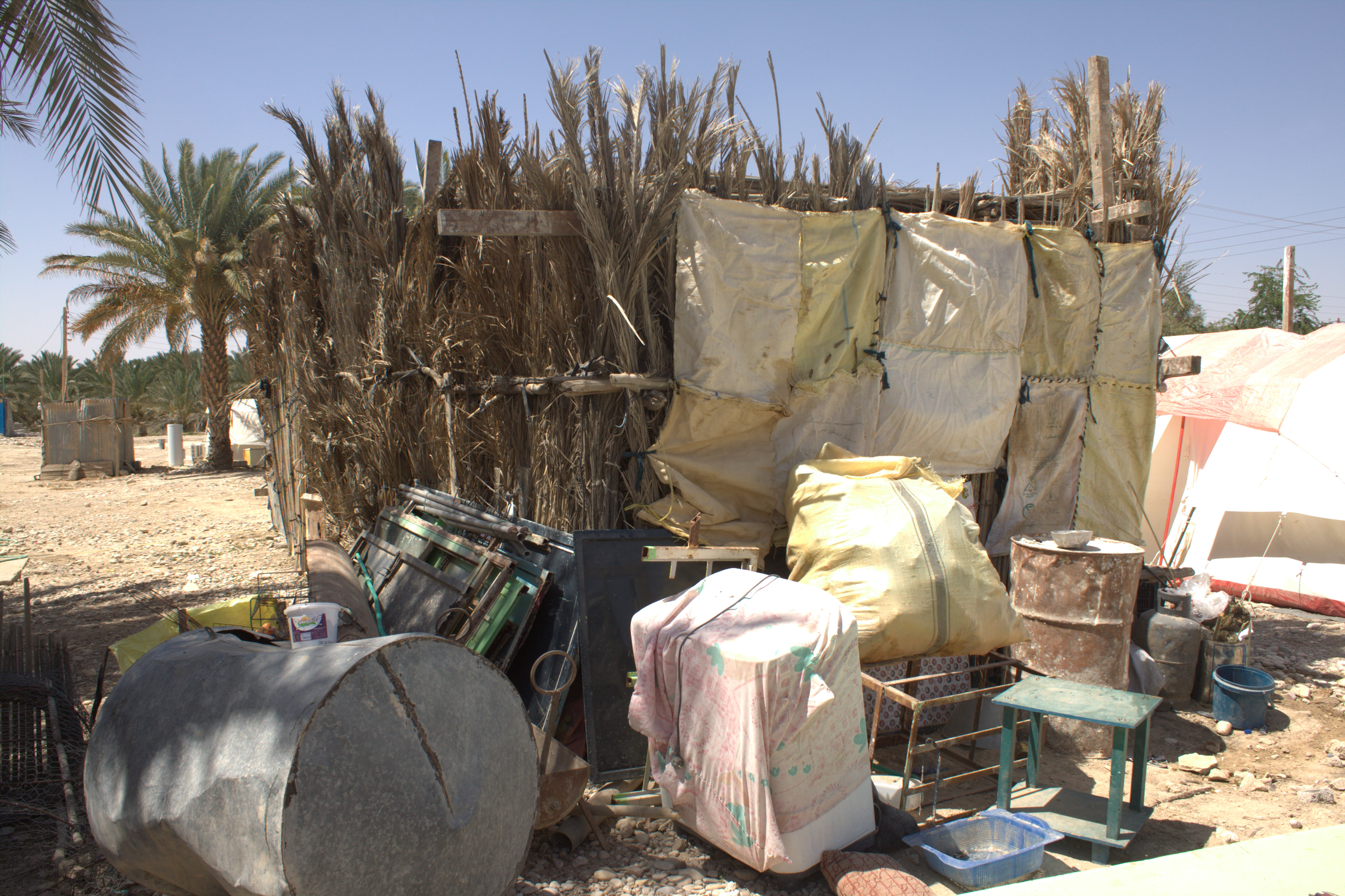 On April 9, 2013, a 6.3-magnitude earthquake struck the Iranian province of Bushehr, near the city of Khvormuj and the towns of Kaki and Shonbeh. At least 37 people were killed, mostly from the town of Shonbeh and villages of Shonbeh-Tasuj district, and an estimated 850 people were injured.